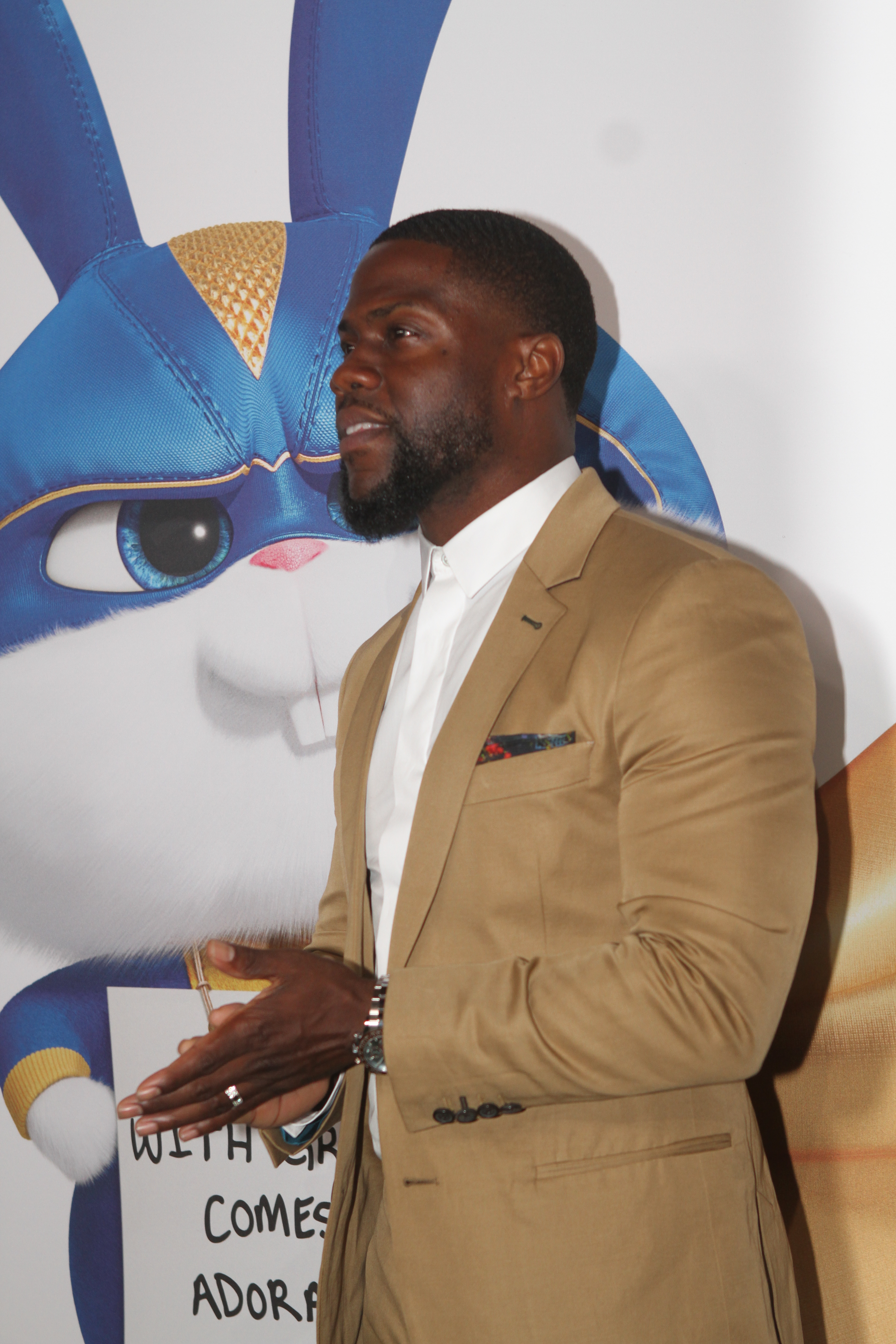 The Secret Life of Pets 2, Kevin Hart